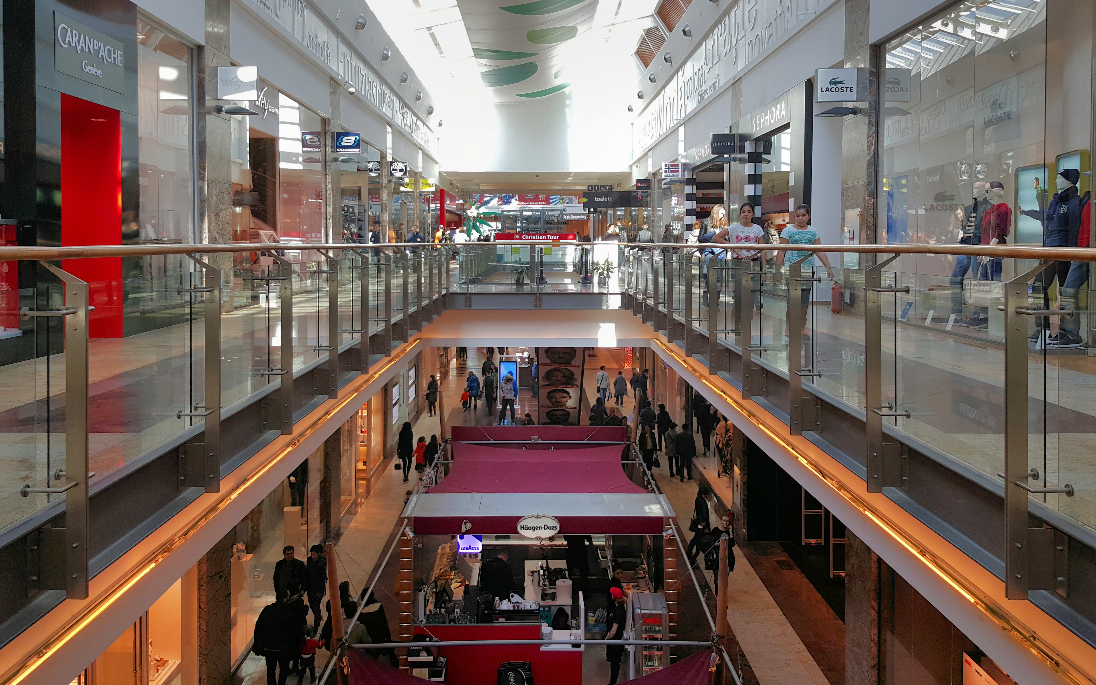 Baneasa Shopping City, just north of Bucharest, Romania.